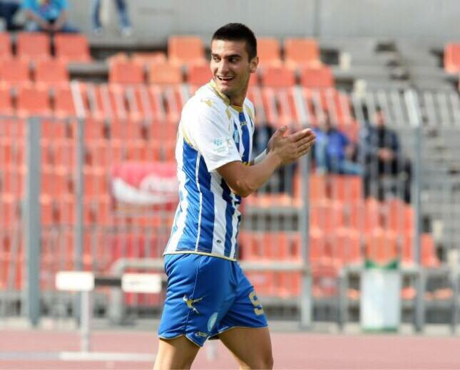 Kirovski in 2013 with Iraklis